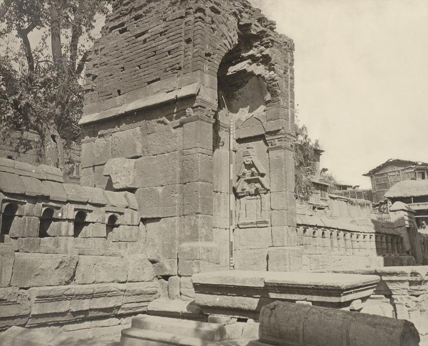 Gateway of enclosure, of Zein-ul-ab-ud-din's Tomb, in Srinagar. Probable date A.D. 400 to 500 (?), 1868. John Burke. Oriental and India Office Collection. British Library. Photograph of the gateway and enclosure of Zain-ul-abidin's tomb at Srinagar in Jammu and Kashmir, taken by John Burke in 1868. This photograph is reproduced in Henry Hardy Cole's Archaeological Survey of India report, 'Illustrations of Ancient Buildings in Kashmir' (1869), when Cole wrote, 'In the Panels of the Gateways, there is proof that buildings had previously existed, in which columns play a part...The break in the roof is also remarkable as occurring in conjunction with the simplicity of the enclosing wall, and indicates, I think, that the Gateway is probably more modern than the wall, and may perhaps have been set up by the Mahomedans out of some of the materials of other ruined temples of which a quantity lies strewn all over Srinagar.'